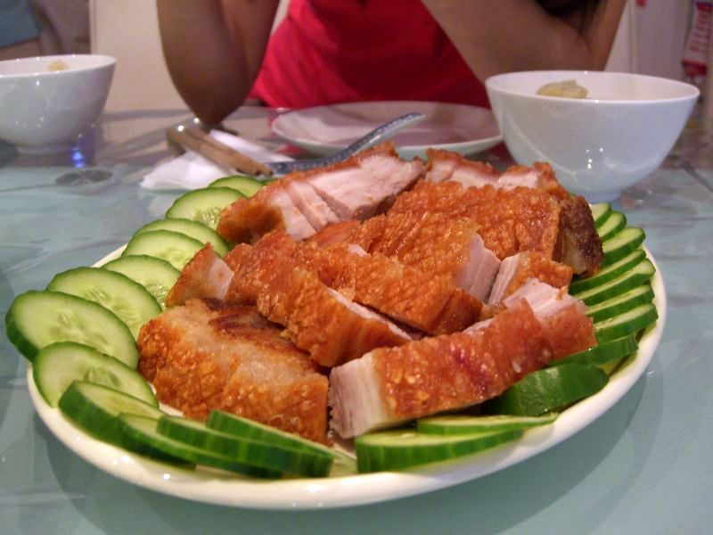 a plate of 燒肉, or Chinese style roasted pork.